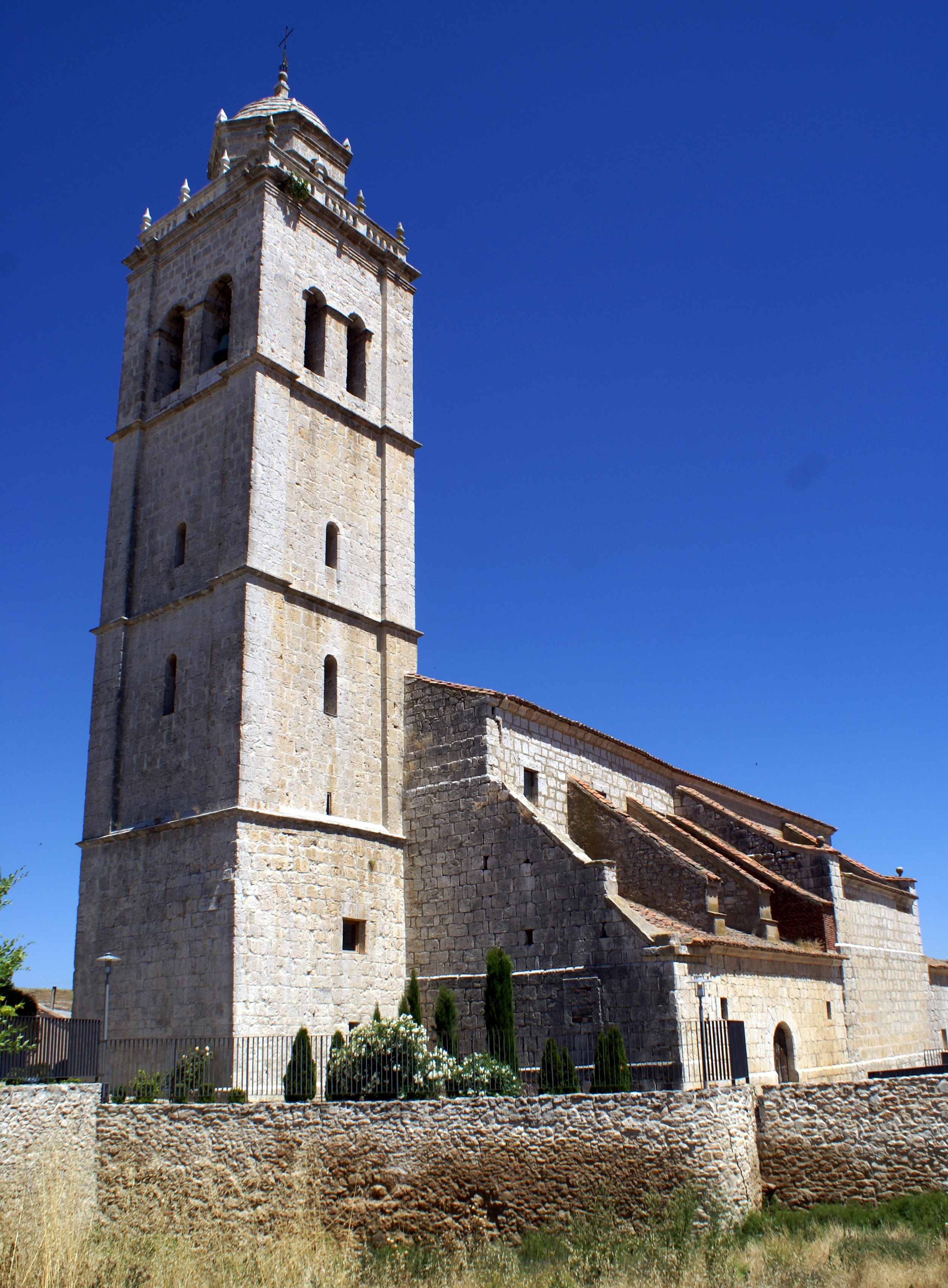 Church of San Ginés in Ciguñuela, Valladolid, Spain.